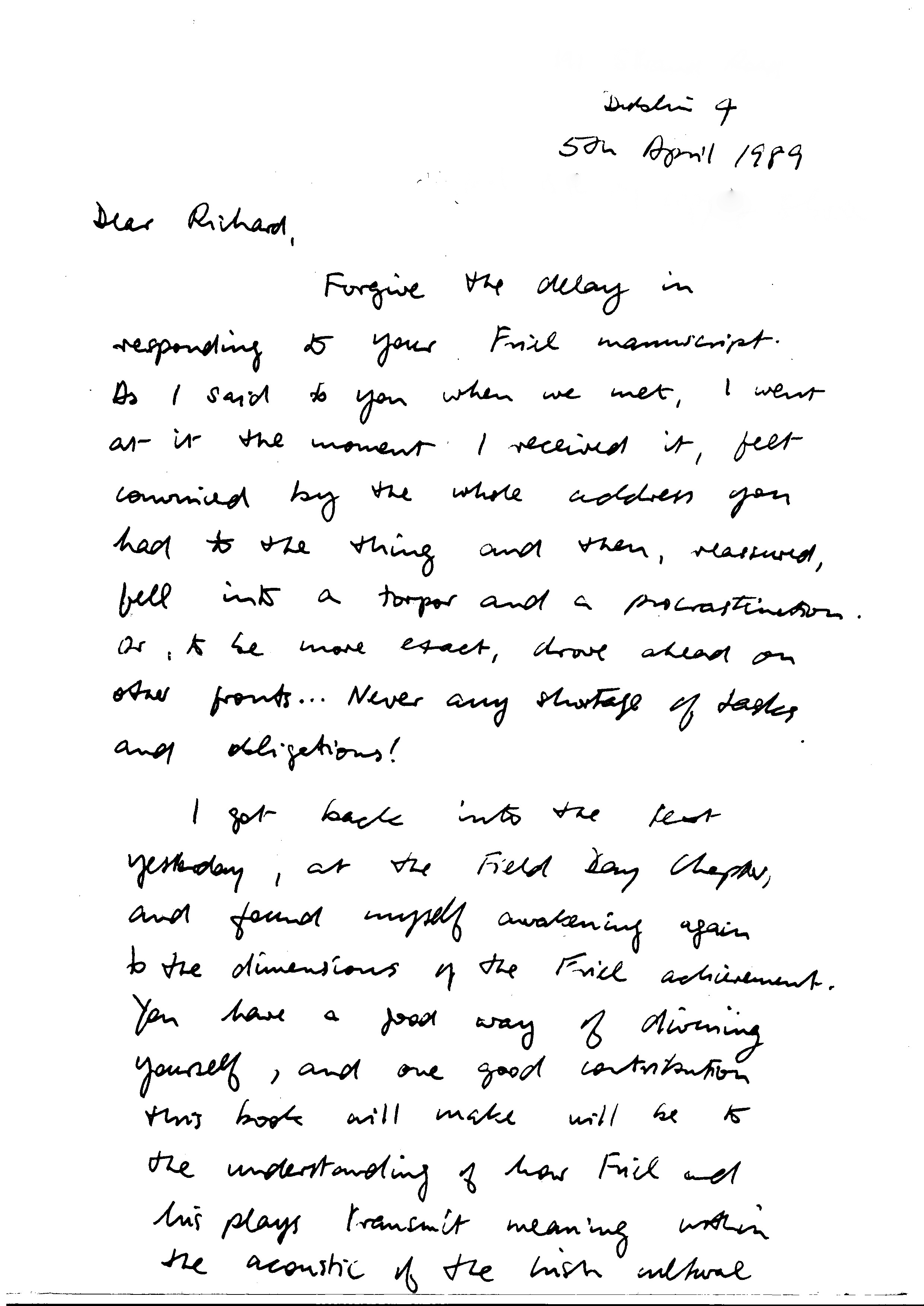 Personal letter to the author and critic, Richard Pine, from the Irish poet, Seamus Heaney, dated 5th April 1989 (page 1)